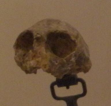 fossil of Tremacebus, an extinct primate